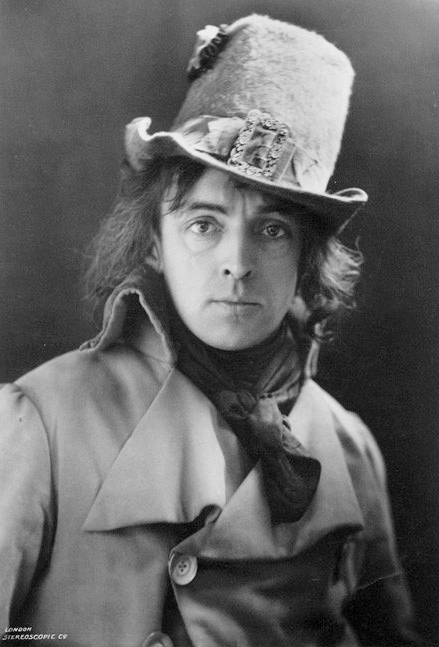 Sir John Martin-Harvey as Sydney Carton in 'The Only Way'